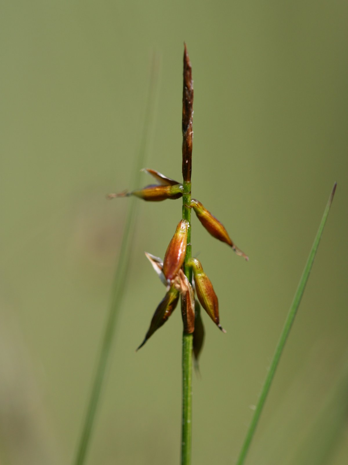 Floh-Segge (Carex pulicaris)